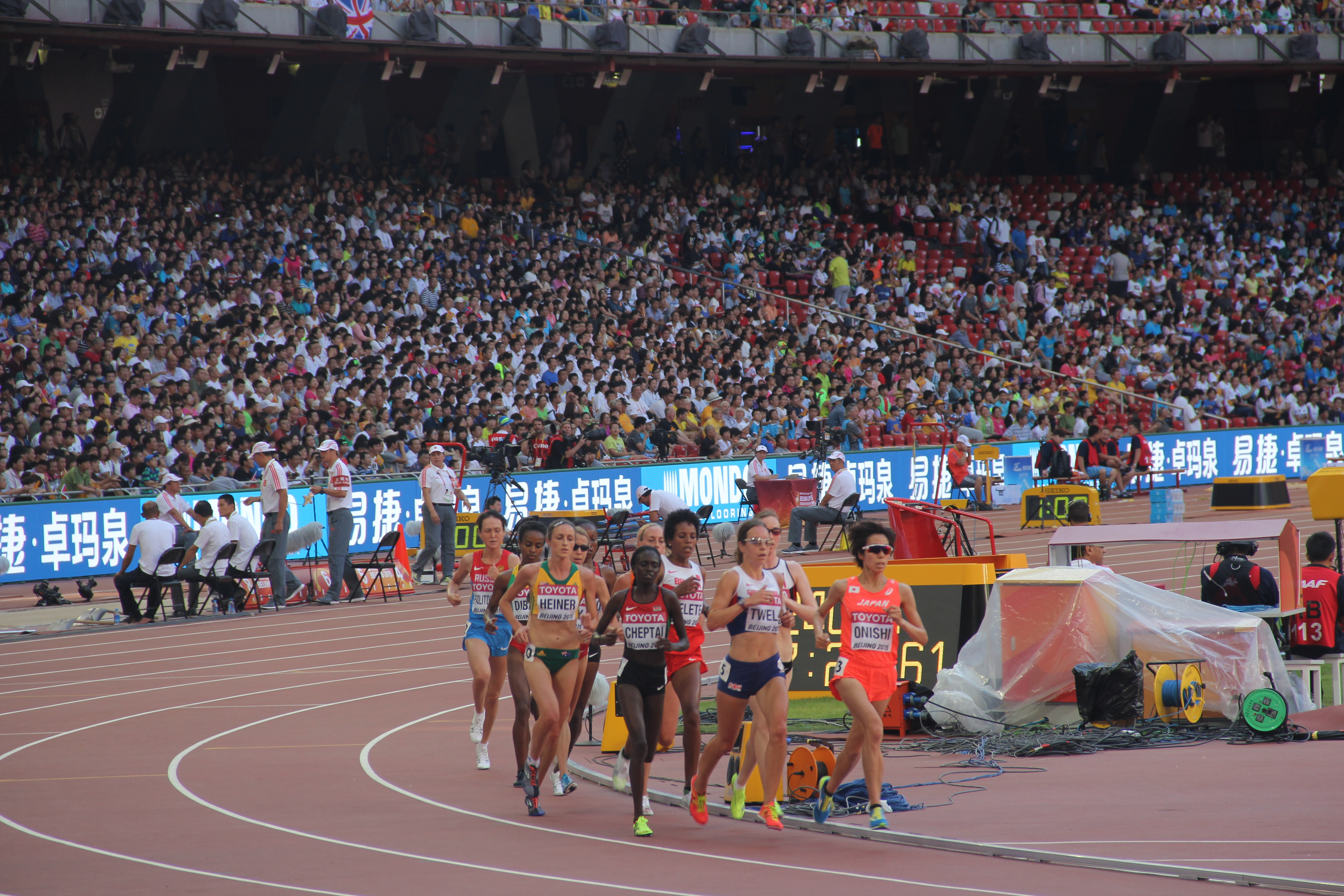 2015 World Championships in Athletics